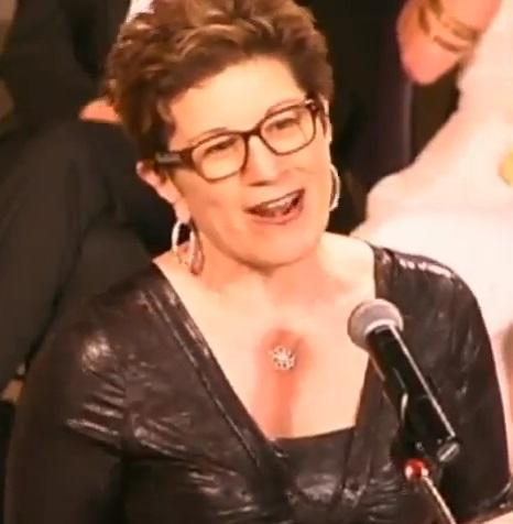 The Lilly Awards Foundation presents the Sixth Annual Lilly Awards Ceremony hosted by Tony Award nominee Lisa Kron livestreaming on the global commons-based peer produced HowlRound TV network at howlround.tv on Monday, June 1 at 2pm PDT (Vancouver) / 4pm CDT (Chicago) / 5pm EDT (New York) / 21:00 GMT / 10pm BST (London). In Twitter, use #lillyawards, #howlround, and follow @thelillyawards and @HowlRoundTV.